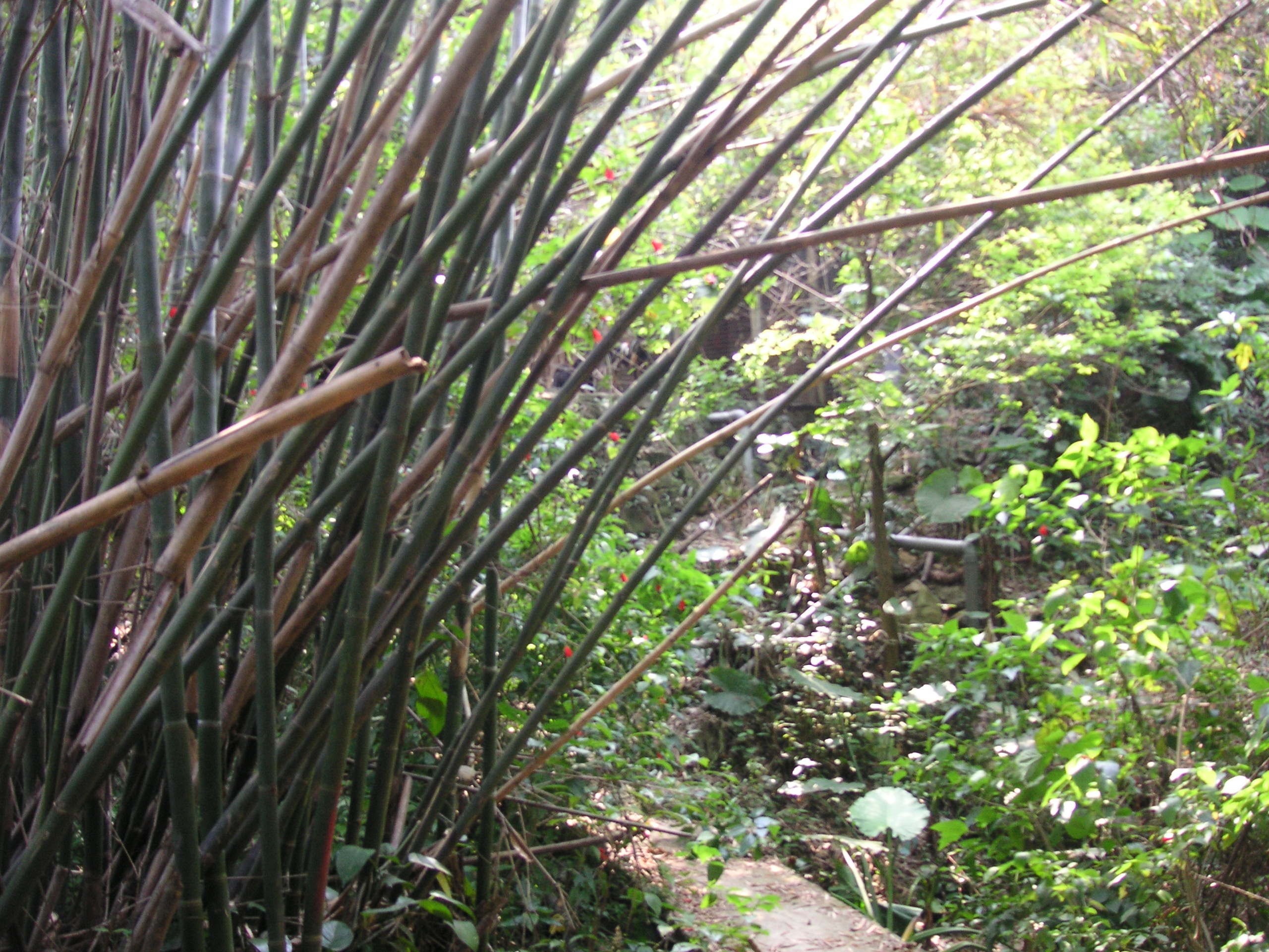 Houses and a stream behind a bamboo forest. Photograph by User:HenryLi